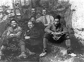 Thr climber Oliver Perry-Smith with friends